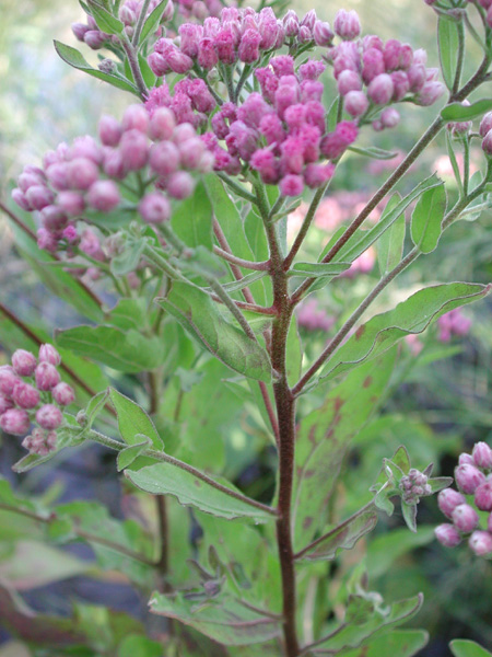 Pluchea odorata (L.) Cass., Salt Marsh Fleabane at Salt River, Maricopa County, Arizona, USA.